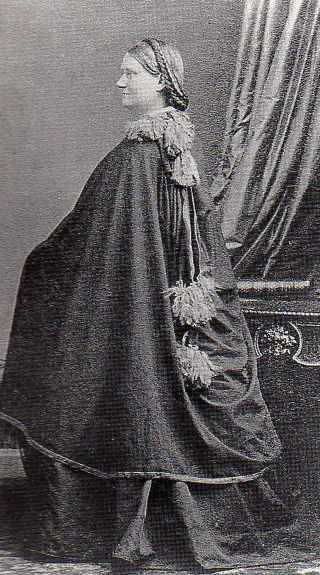 Barbara Bodichon in about 1856